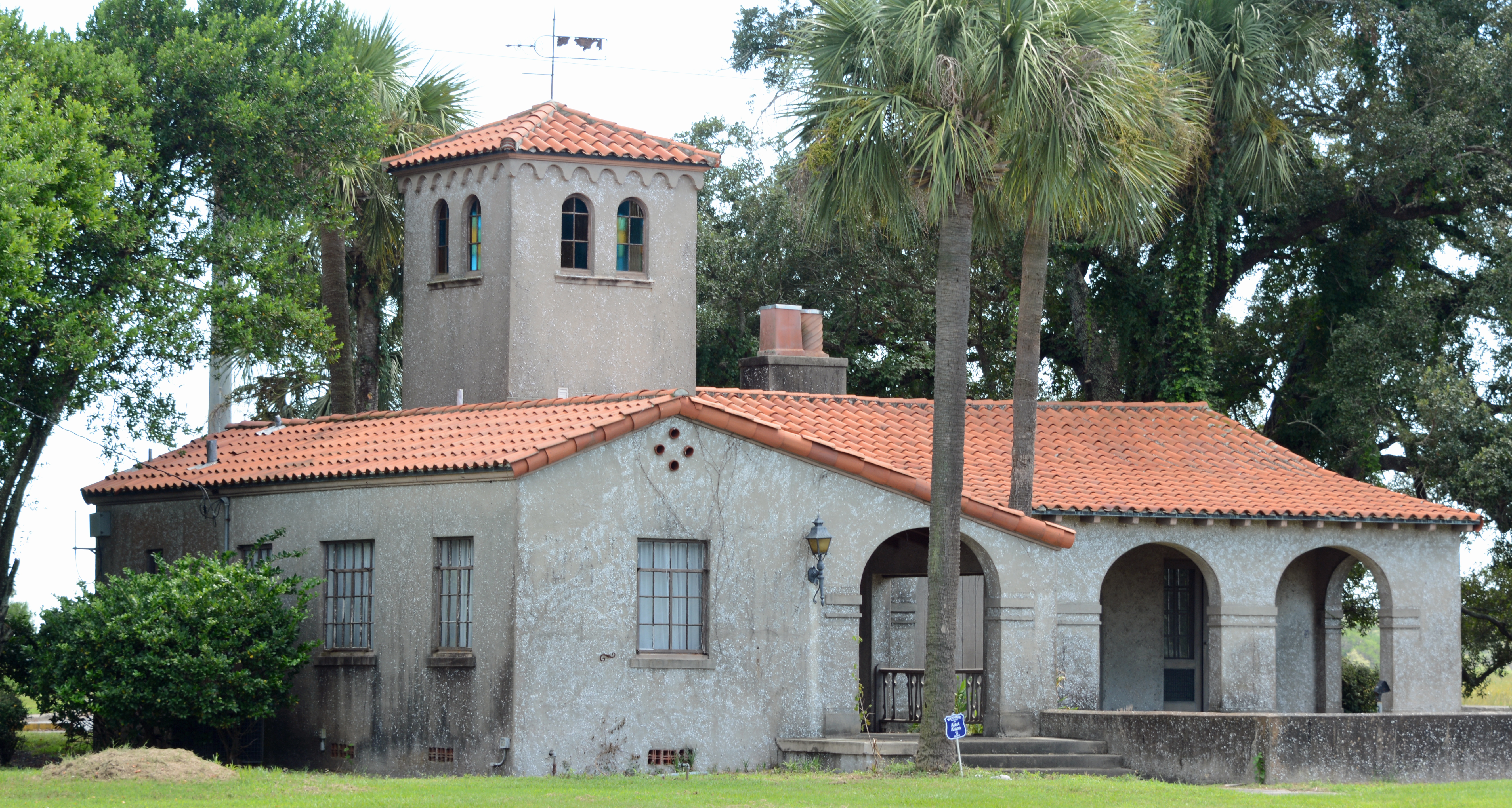 The building that was used as a welcome center in Brunswick, Georgia, US